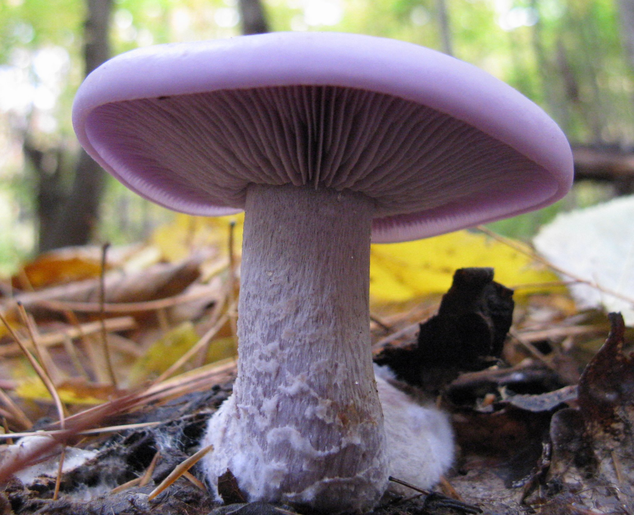 Lepista nuda ((Bull.) Cooke) Location: West Lebanon, Grafton Co., New Hampshire, USA Notes: Cortinarius alboviolaceusCommon name: Silvery-Violet Cortinariusnotes: This mushroom was fruiting alone on the forest floor. If you look closely you can see rusty colored spores caught in the whitish fibrils on the stalk. The cap is convex, dry, smooth, and lilac. The gills are adnexed, close, and pale lilac colored. The stem is clavate, very pale lilac colored underneath white fibril patches. The bottom of the stalk is completly sheathed in white fibers from the universal veil.